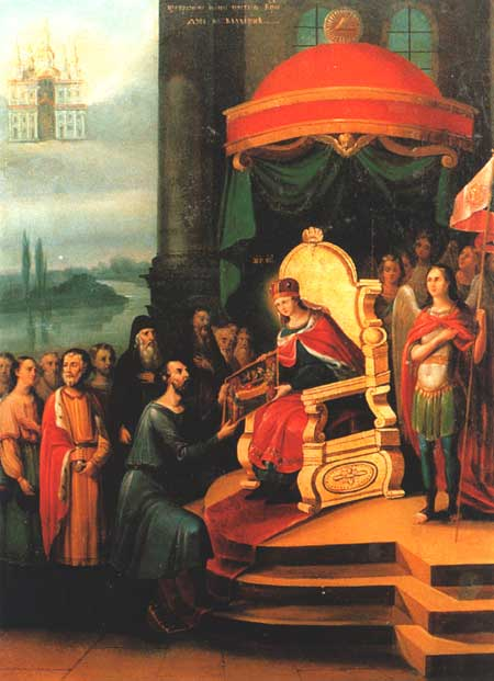 Icon of 12 Greek saints builders of Kyiv Caves monastery. The builders became monks at Kyiv Caves monastery. Here they receive icon from God´s Mother. 11th century, Kyiv, Ukraine.